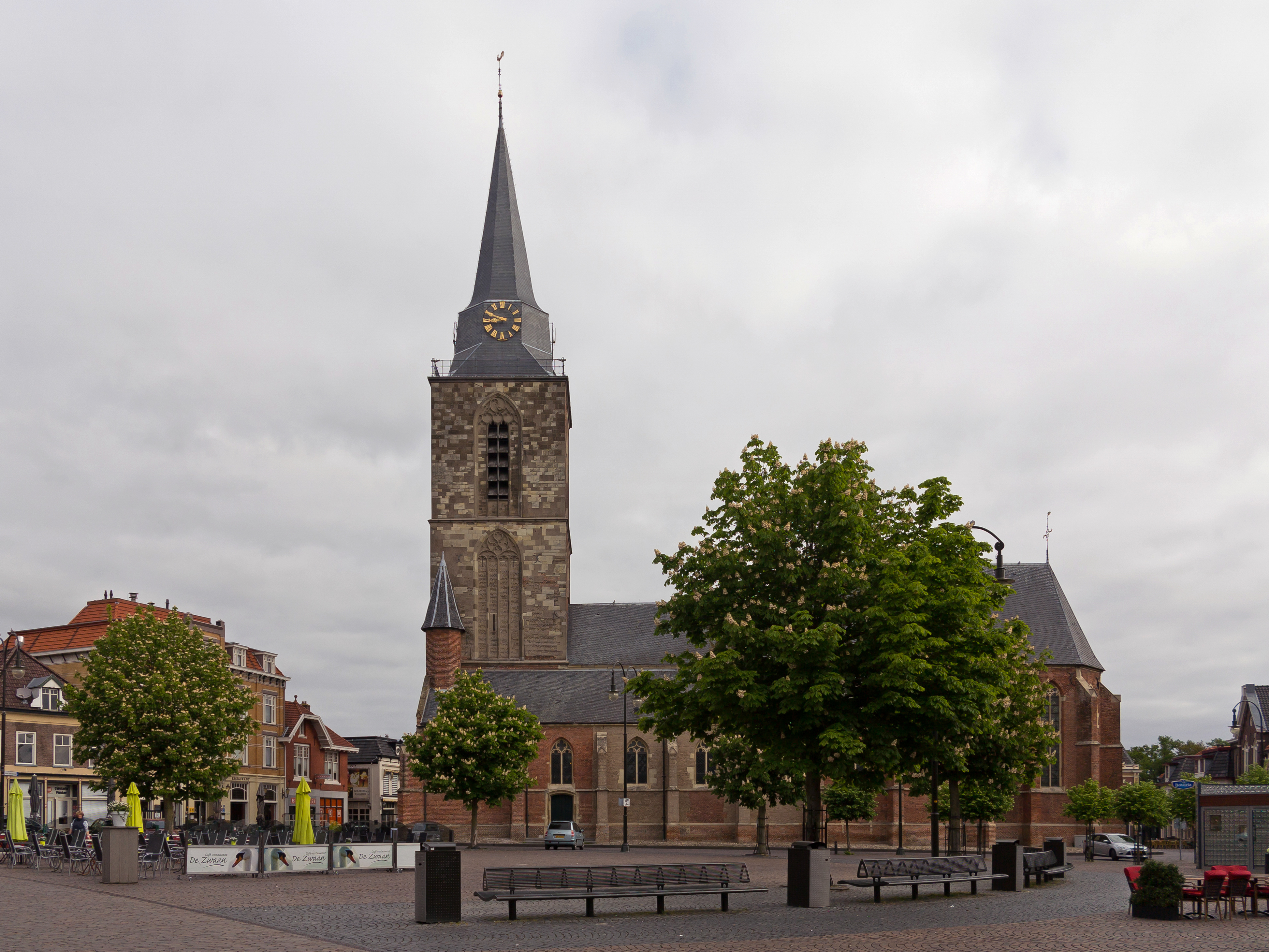 Winterswijk, church: de Sint Jacobskerk